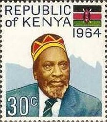 Stamp of Kenya depicting Jomo Kenyatta. Cost 15 Kenyan cents.